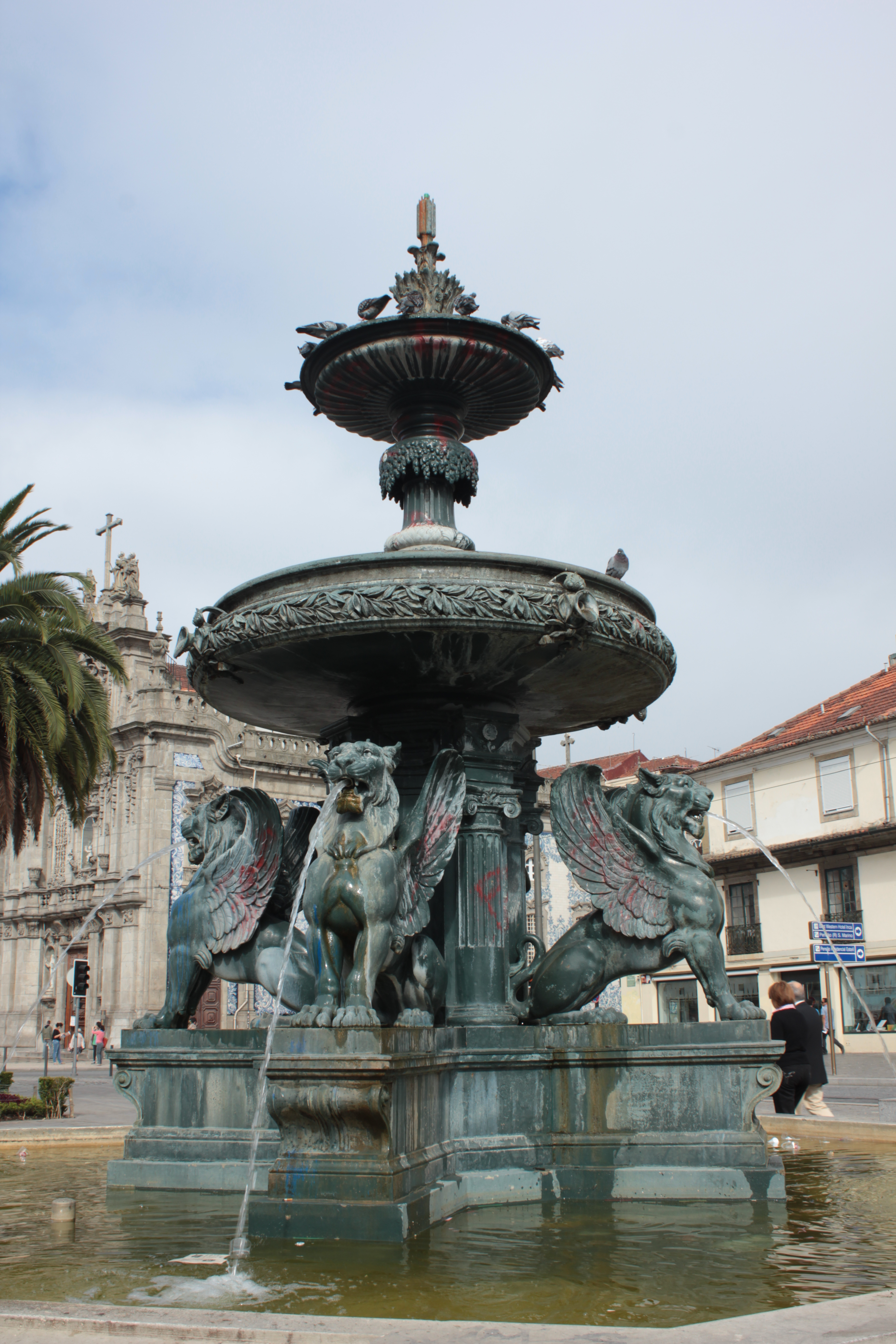 This file was uploaded for Wiki Loves Monuments in Portugal with the unique identifier 97003969.